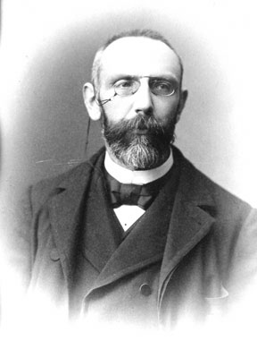 Photograph of the French physicist and mathematician Marcel Brillouin (1854 - 1948).